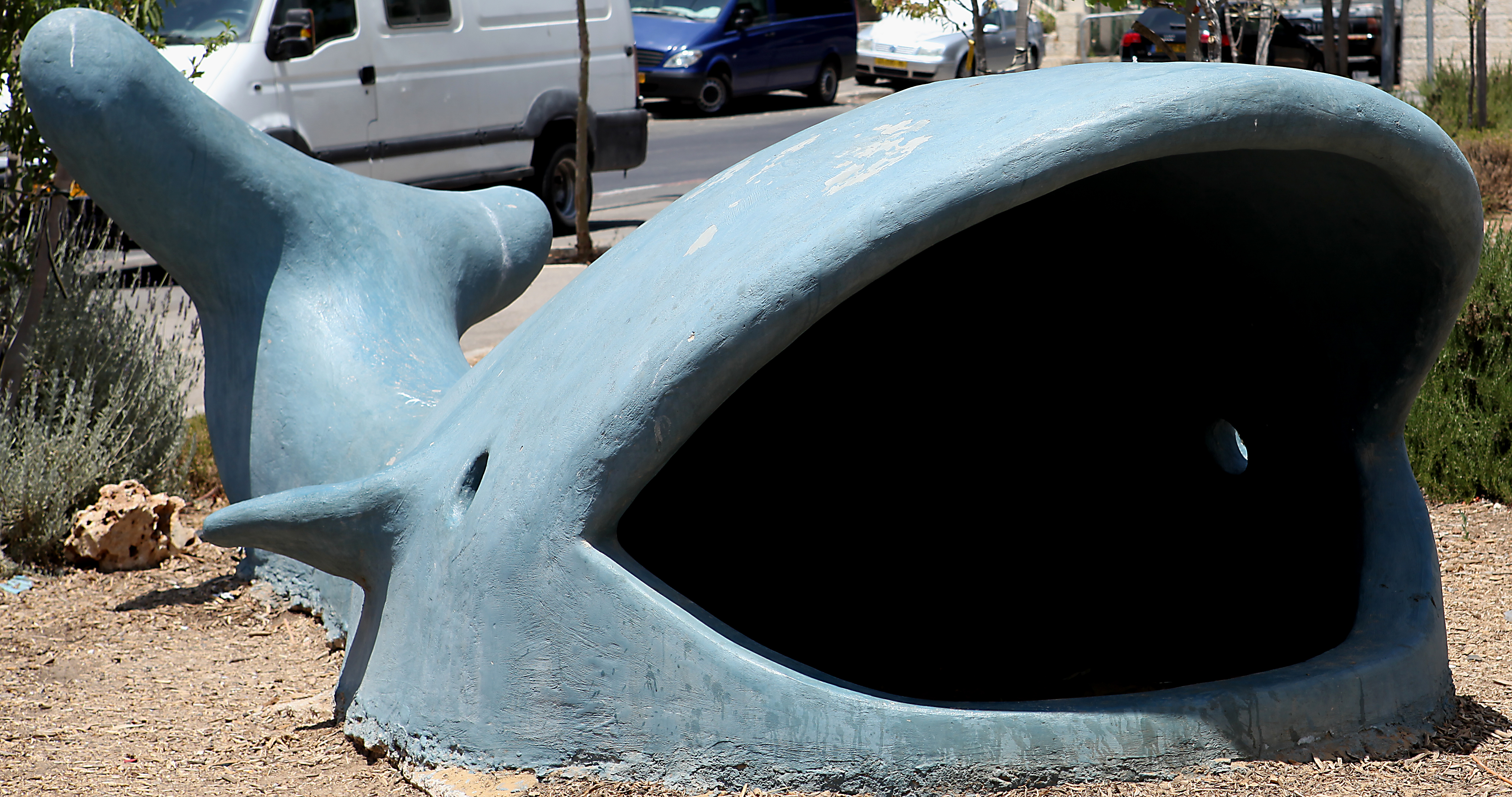 Whale Statue in Jerusalem, Katamon neighborhood, Alexandrion street 23, Keshet "קשת" School, The belly of the whale functions as a sandpit. Jerusalem